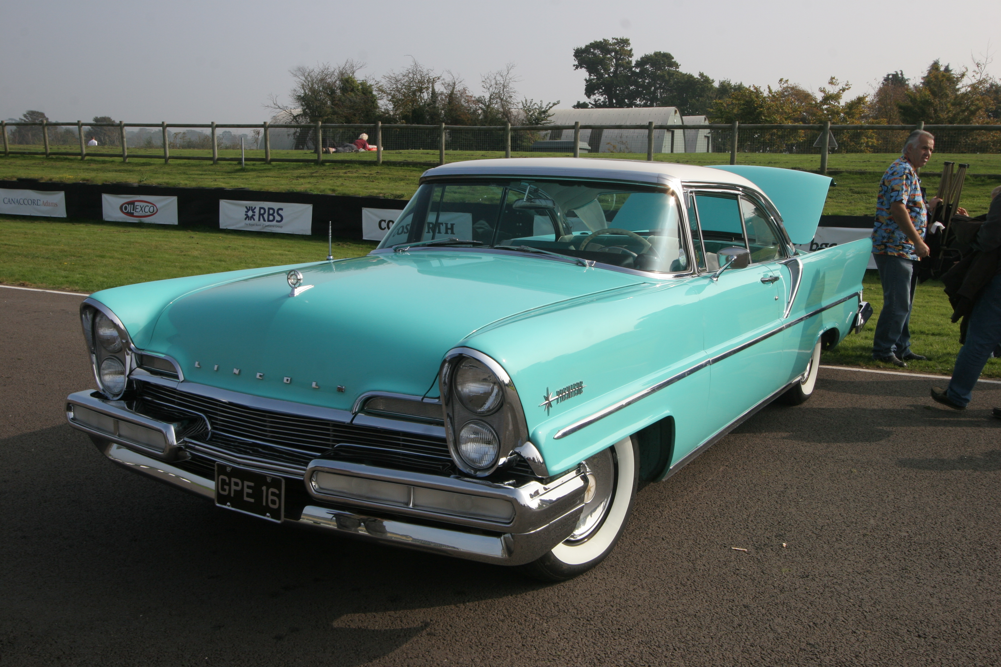 Goodwood Breakfast Club - Lincoln Premiere Convertible